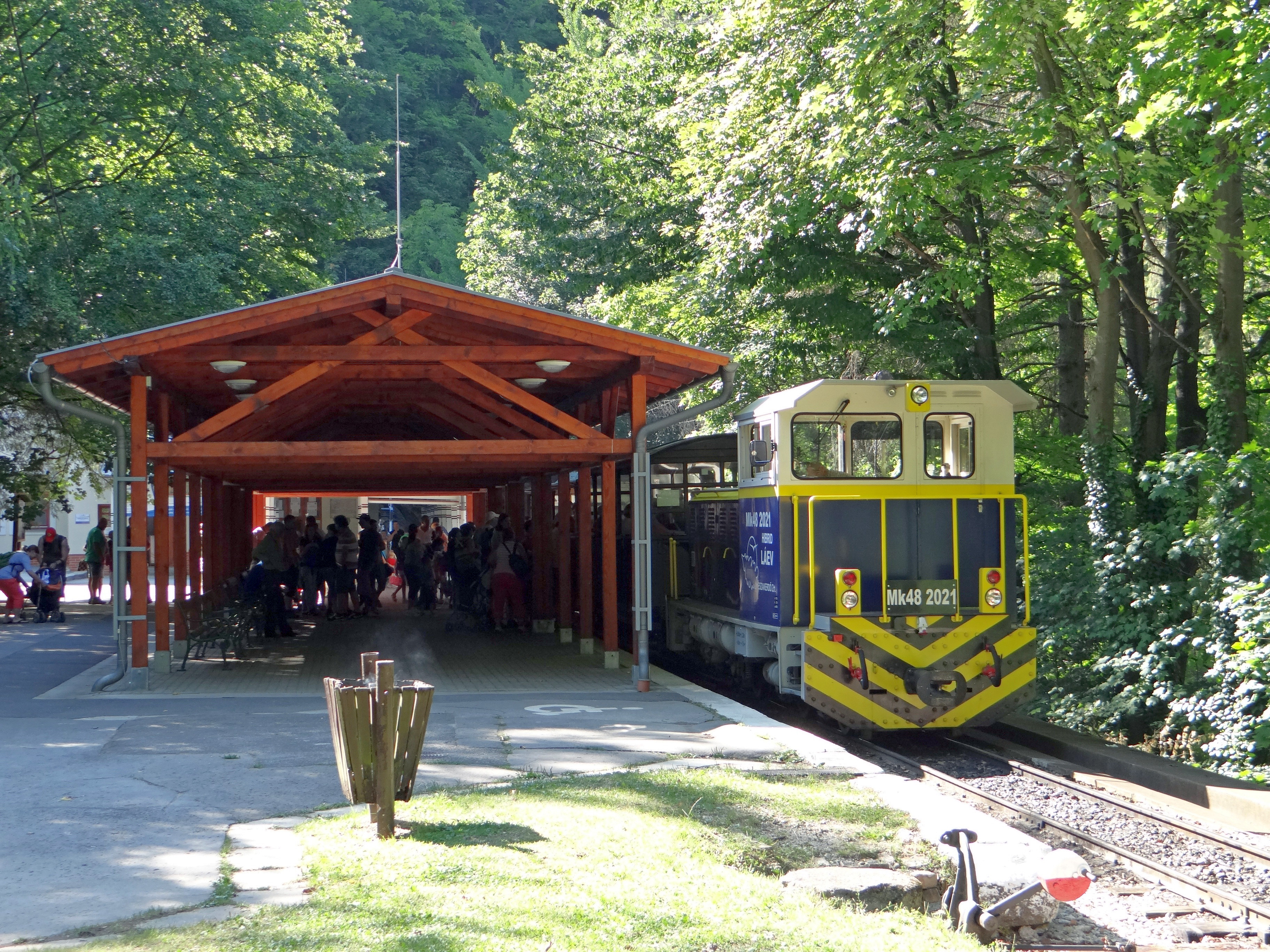 Narrow gauge train (with hybrid locomotive) in Lillafured, Hungary